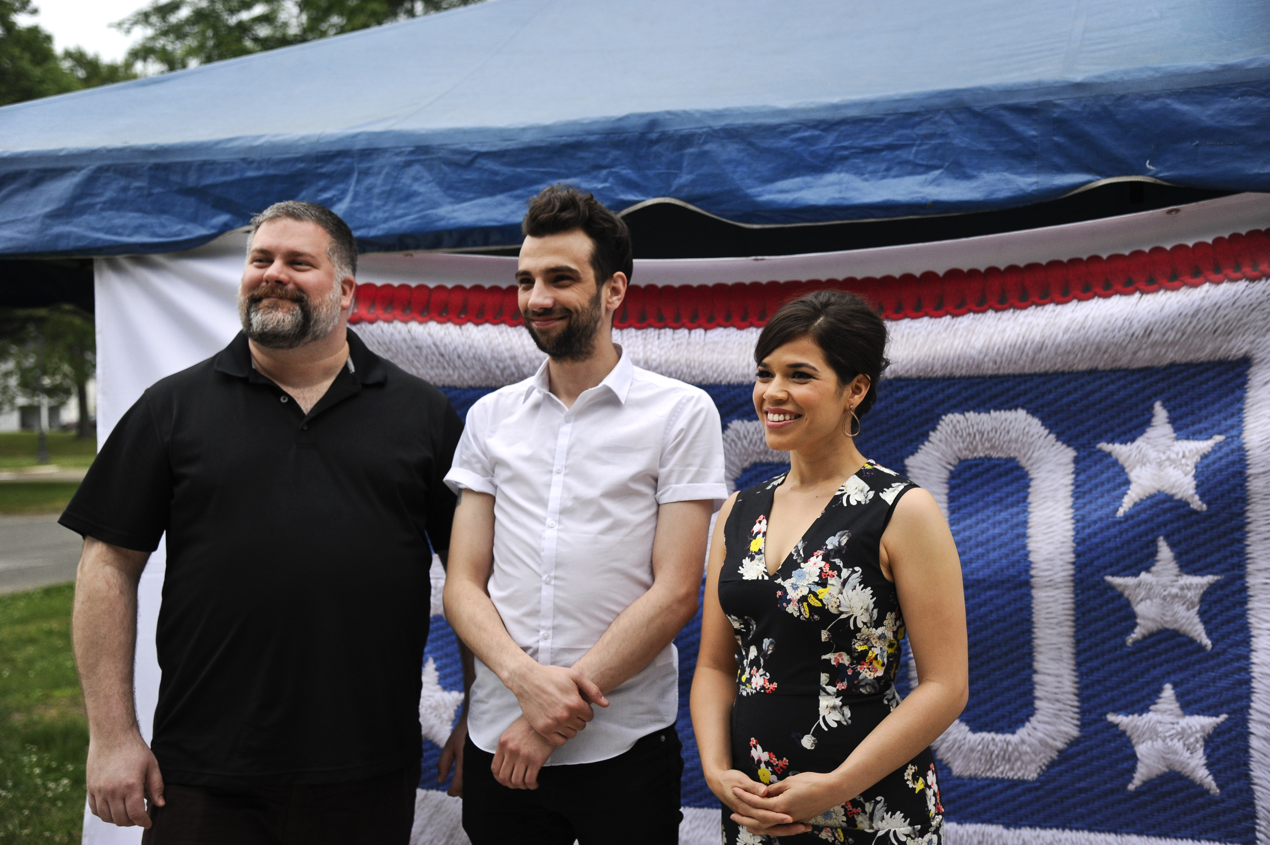 “How to Train Your Dragon 2” cast Dean DeBlois, writer and director, Jay Baruchel, voice of Hiccup, and America Ferrara, voice of Astrid, conduct an interview during an advanced screening of the movie open to military members and their families June 4, 2014, at Joint Base McGuire-Dix-Lakehurst, N.J. The visit to JB MDL was part of a USO tour allowing military families the ability to view the movie a week early, ask cast members questions and get autographs. (U.S. Air Force photo by Staff Sgt. Scott Saldukas/ Released)